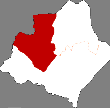 Location of Dawukou district in Shizuishan city, China